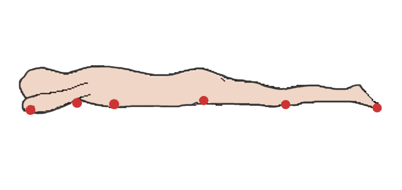 Patient lies with stomach on the bed. Abdomen can be raised off the bed.